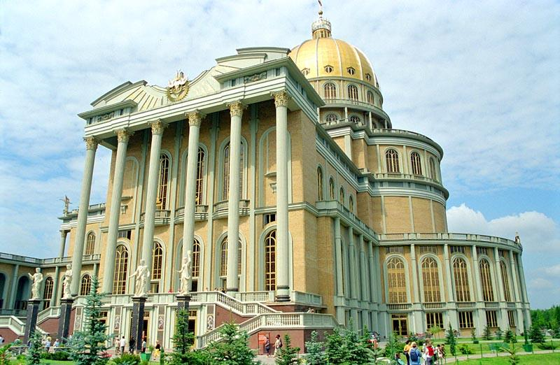 Church in Stary Licheń (With permission, Author: Marek i Ewa Wojciechowscy, Image created by Marek and Ewa Wojciechowscy (Trips over Poland) Permission is granted for use under following licenses of any images copyrighted by the authors, provided they are first uploaded to the Wikimedia Commons site from their site. The copyright holders would find it nice if you would tell them where you reuse this image.